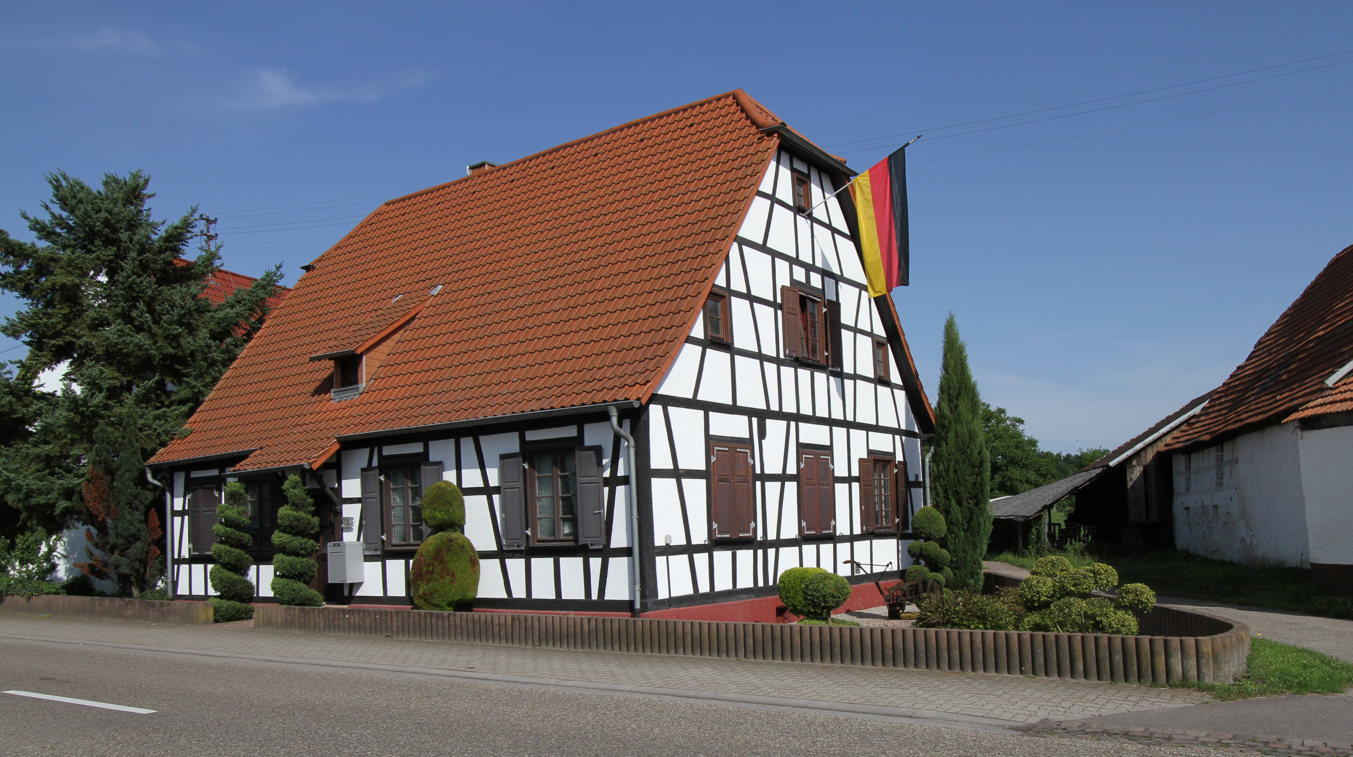 Cultural heritage monument in Berg-Neulauterburg (Pfalz)